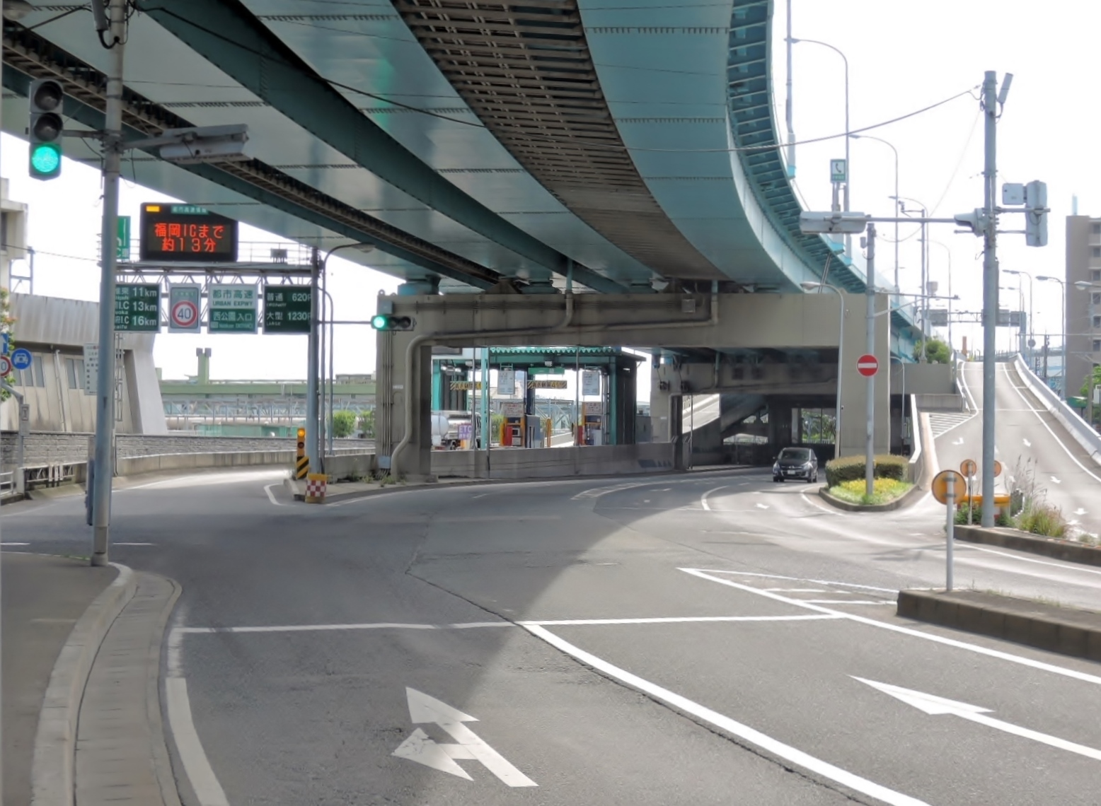 Nishikoen Interchange on the Fukuoka Expressway Circular Route